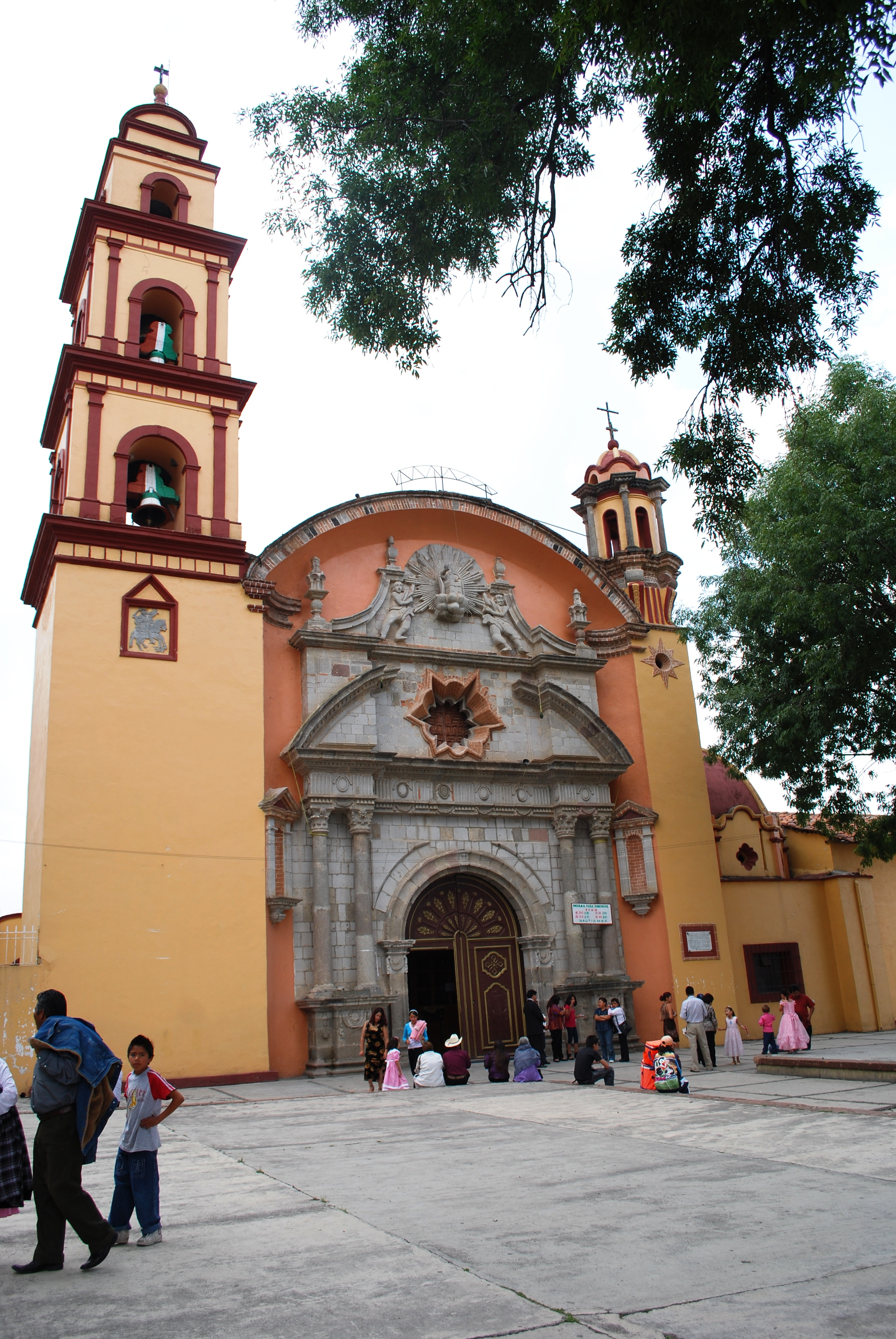 Facade of the main church of Temoaya, Mexico State